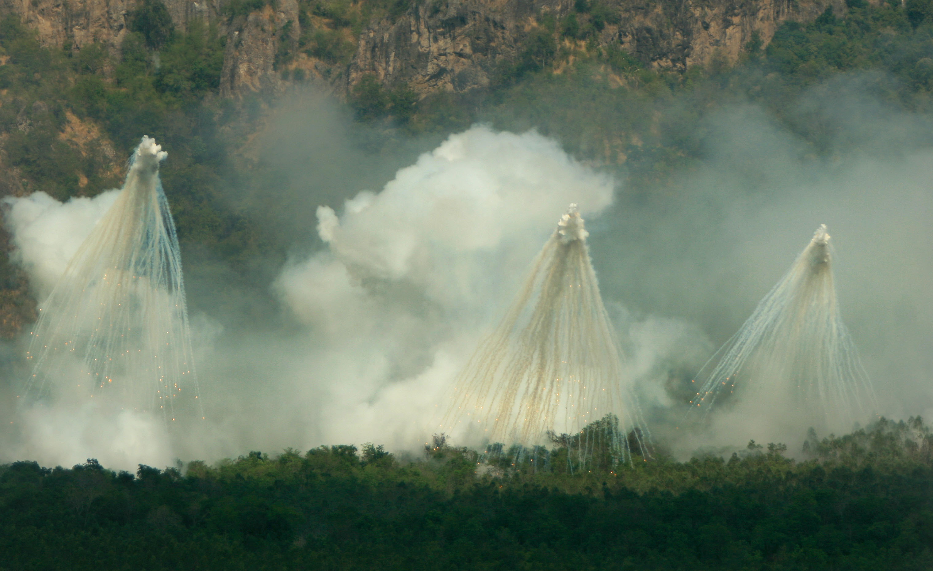 Smoke screen rockets fill the sky to support an air assault during a bilateral training exercise in preparation for a combined arms live fire exercise (CALFEX), Feb. 8. The 31st Marine Expeditionary Unit (MEU) is currently participating in exercise Cobra Gold 2010 (CG’ 10). The exercise is the latest in a continuing series of exercises design to promote regional peace and security.